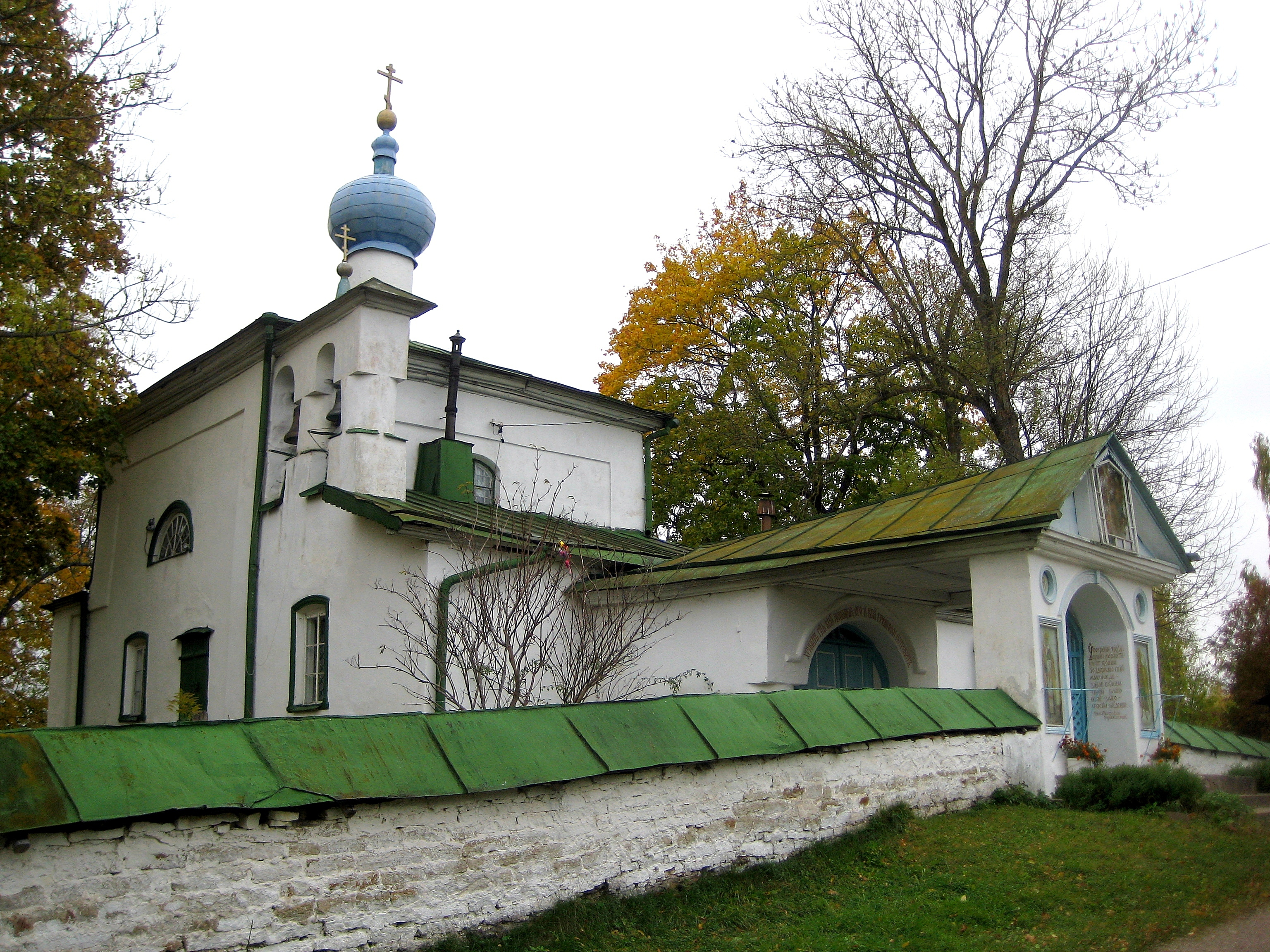 Izborsk (Pechora district of the Pskov oblast). Nativity of the Virgin church